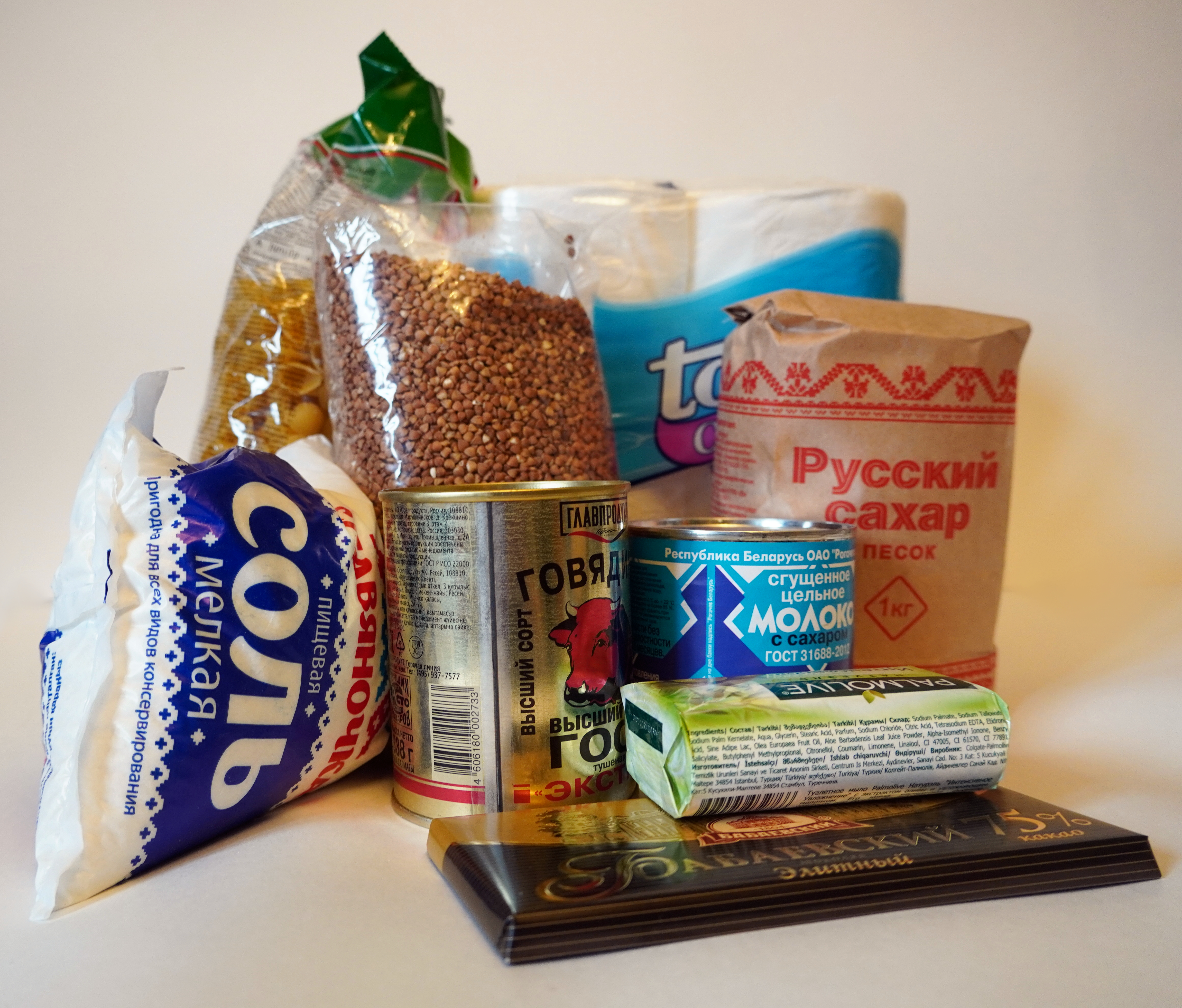 High demand items during the COVID-19 pandemic in Russia